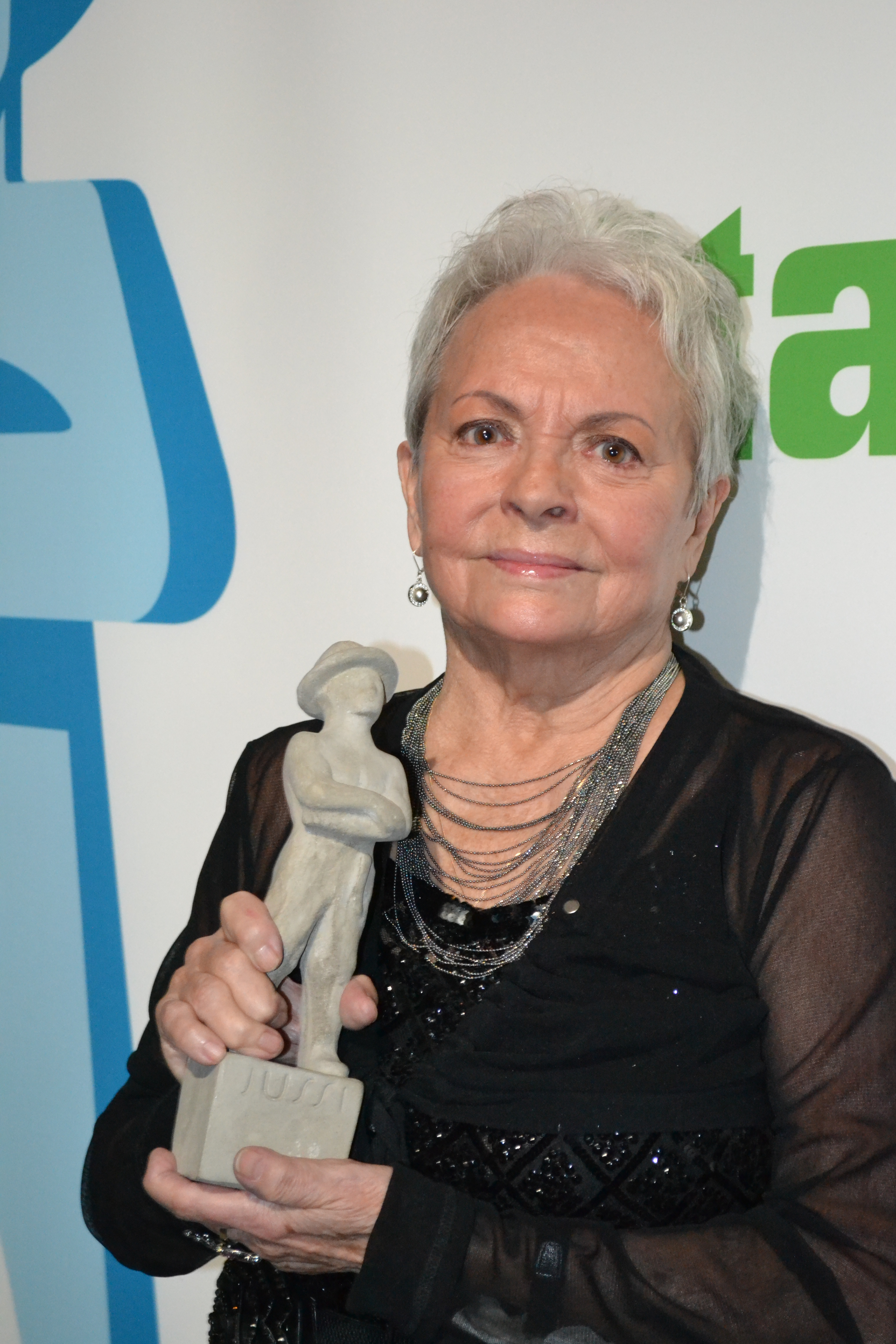 Anneli Sauli in 2013 Jussi Awards.